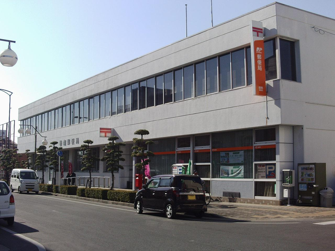 Hekinan Post Office in Hekinan, Aichi, Japan